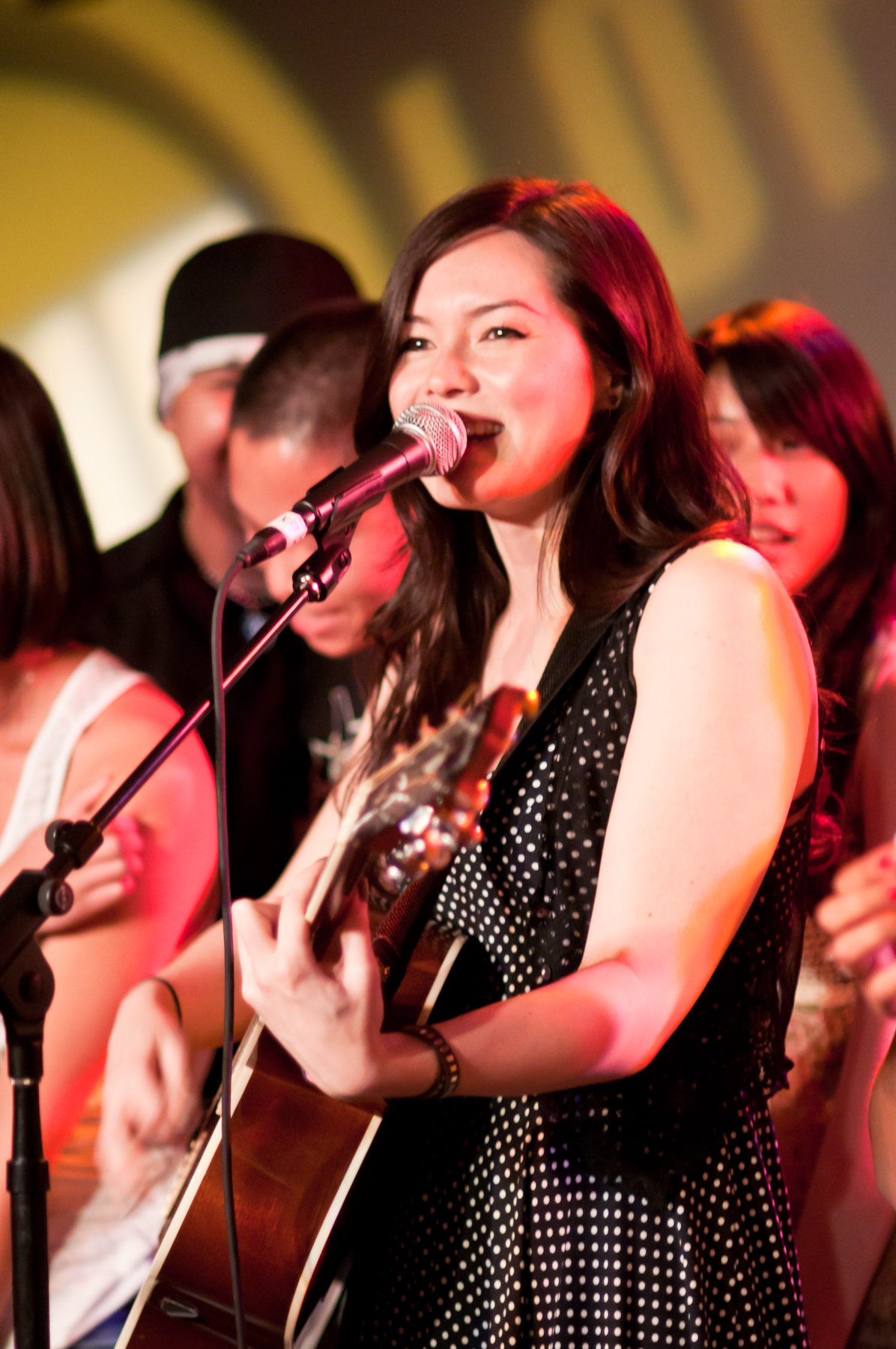 Marié Digby performing at the Loft at the University of California - San Diego